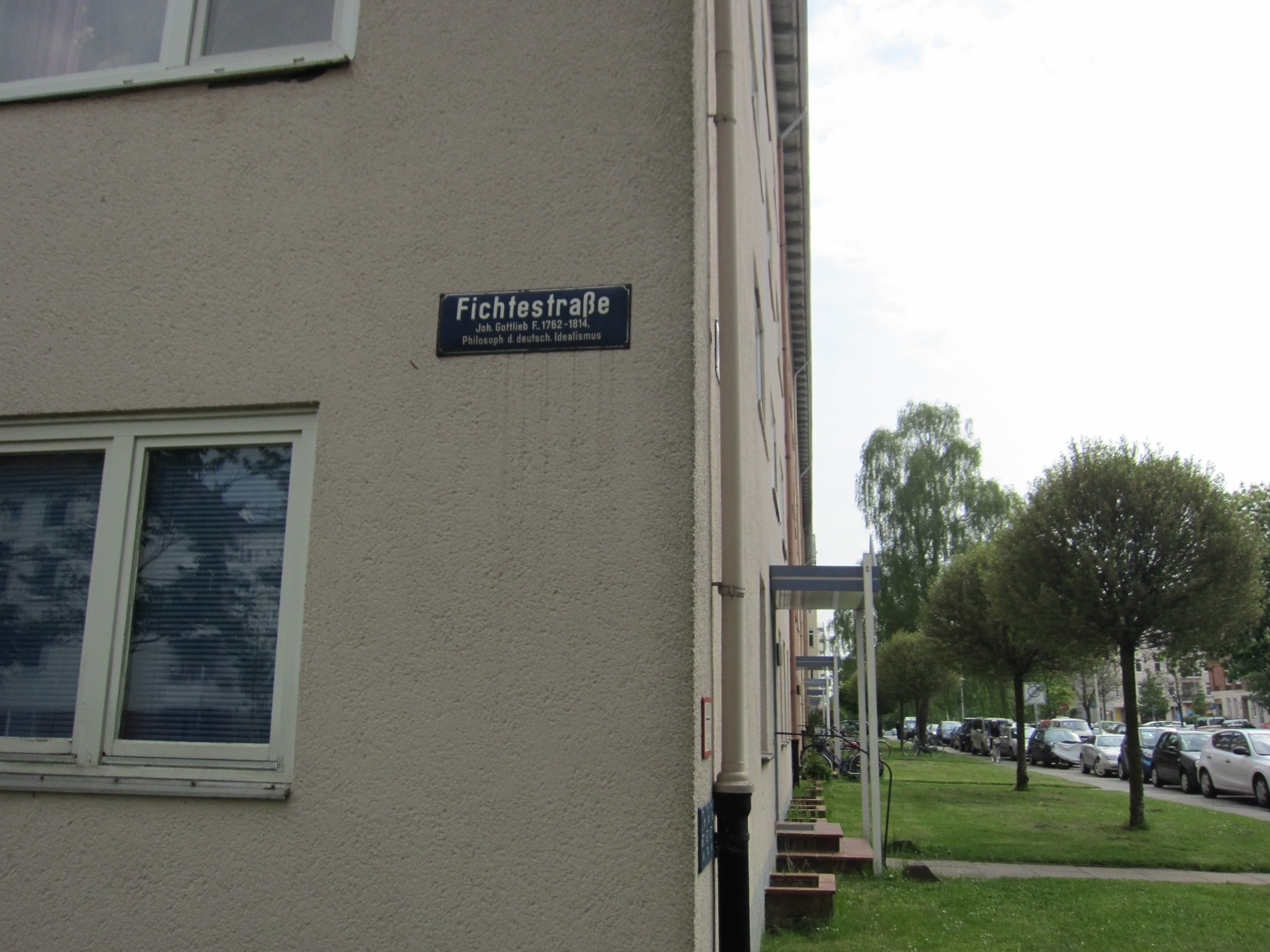 Street sign "Fichtestraße" in Kiel-Ravensberg